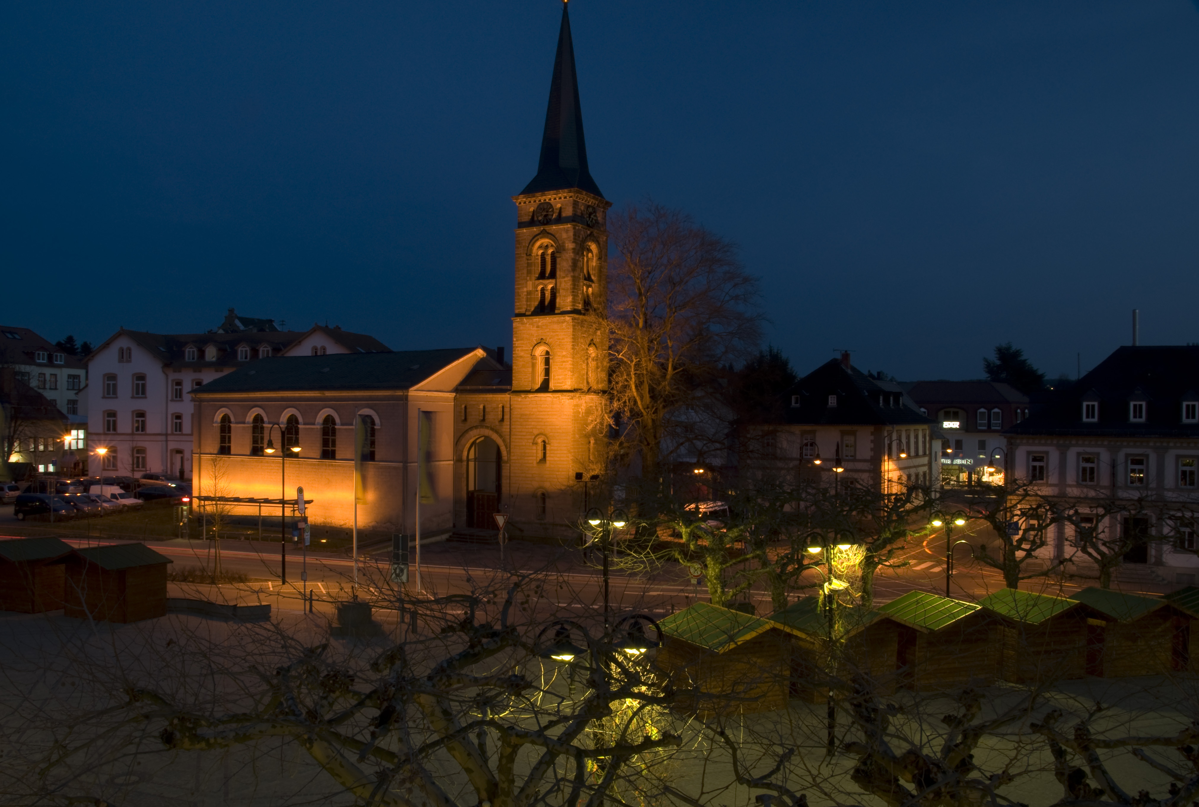 The "Schloßplatz" in St. Wendel